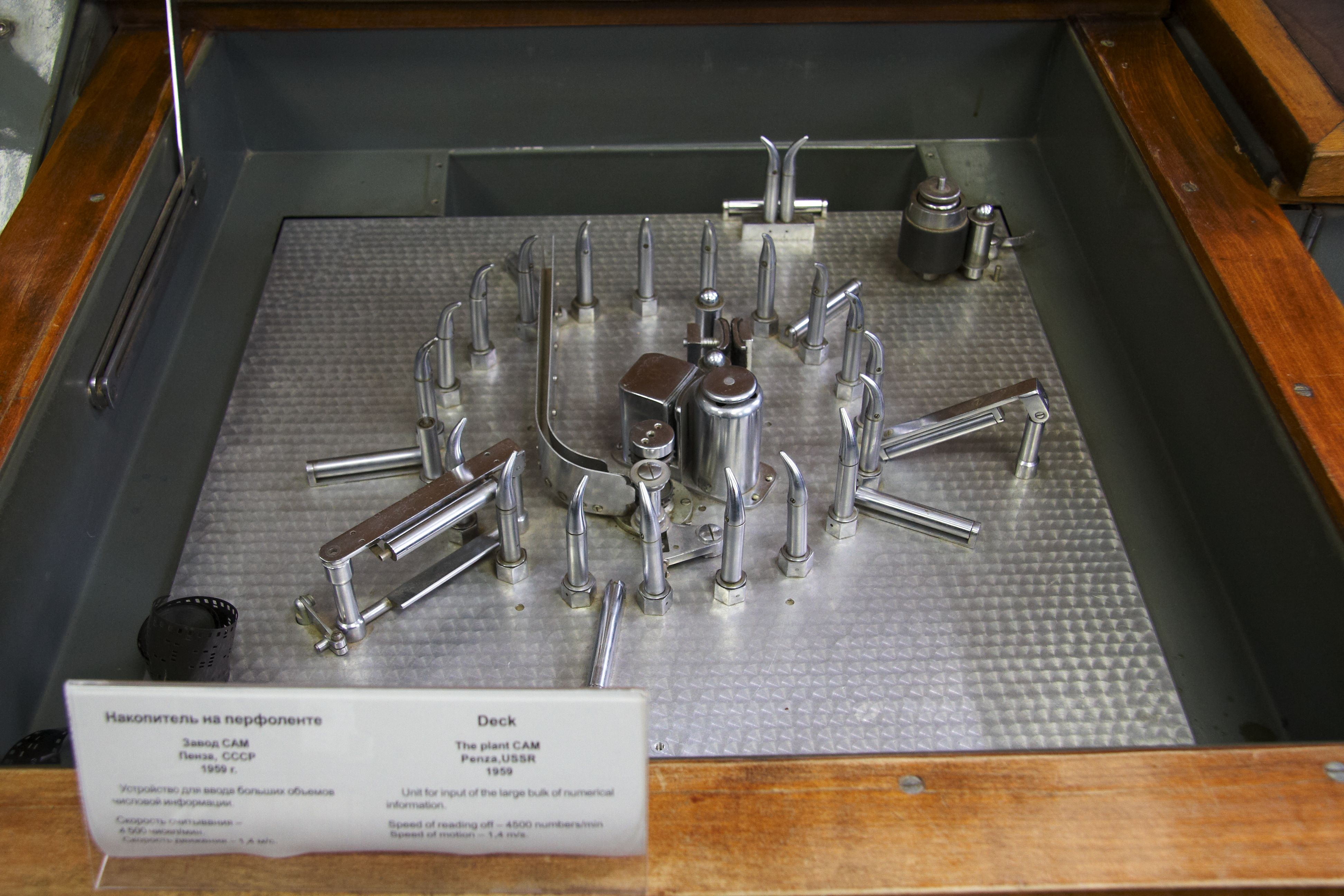 Ural-1 Punched Tape Reader